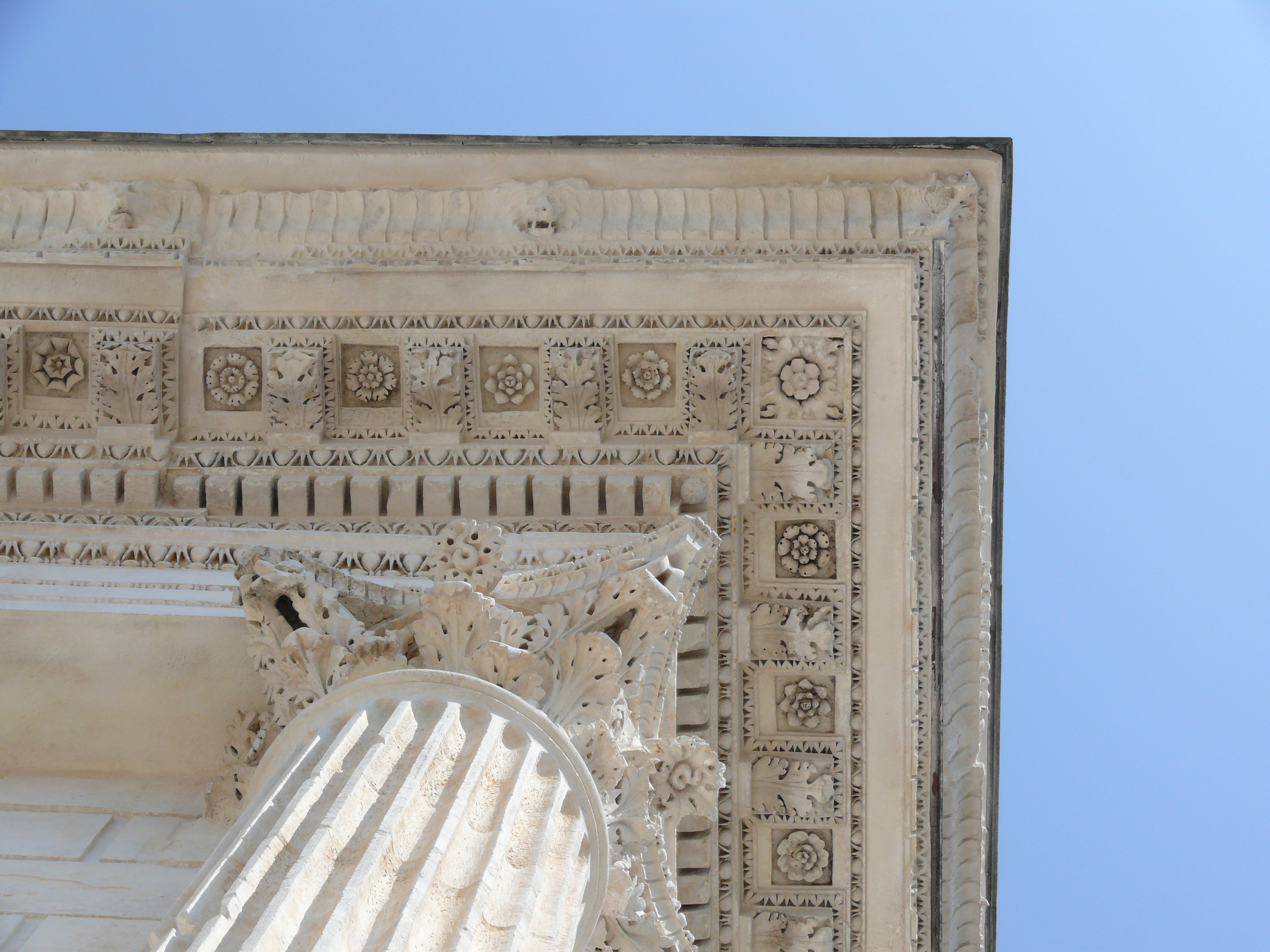 Cornice of the Maison Carrée. The Maison Carrée is an ancient building in Nîmes, southern France; it is one of the best preserved temples to be found anywhere in the territory of the former Roman Empire.